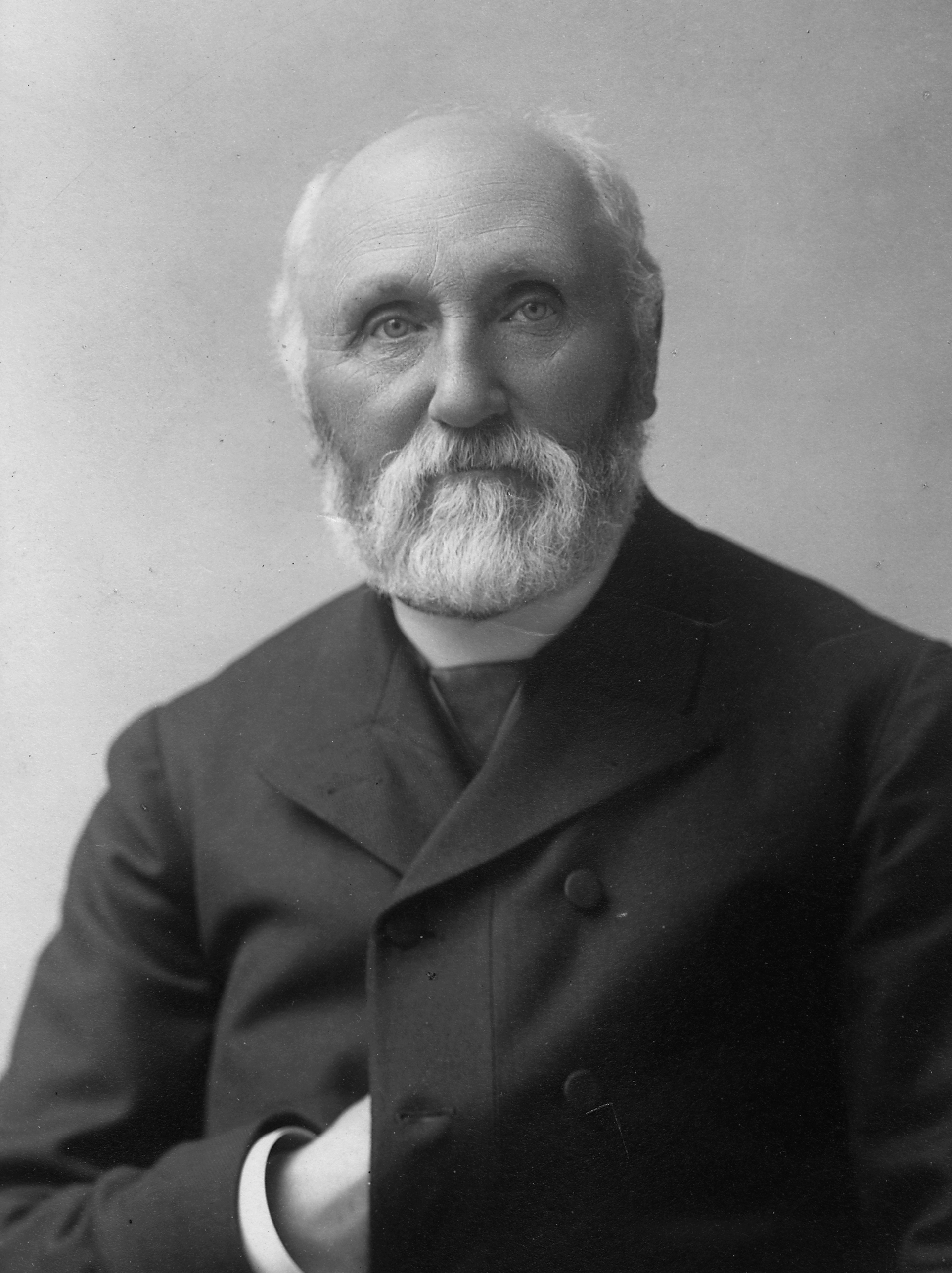 William Duncan, 70 years old. Curtis, Seattle.